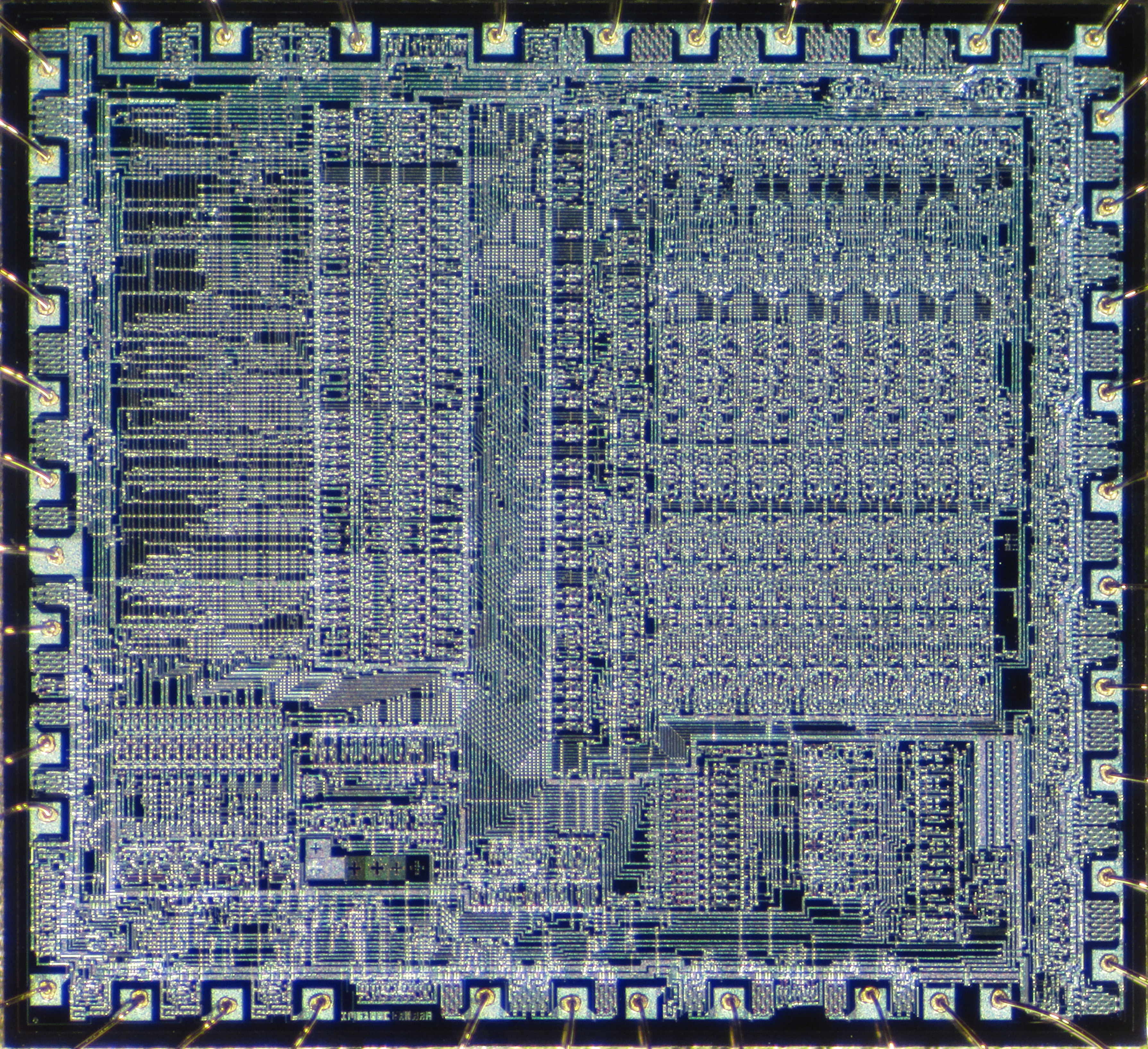 Die shot of Intersil 6100 microprocessor (IM6100IDL).